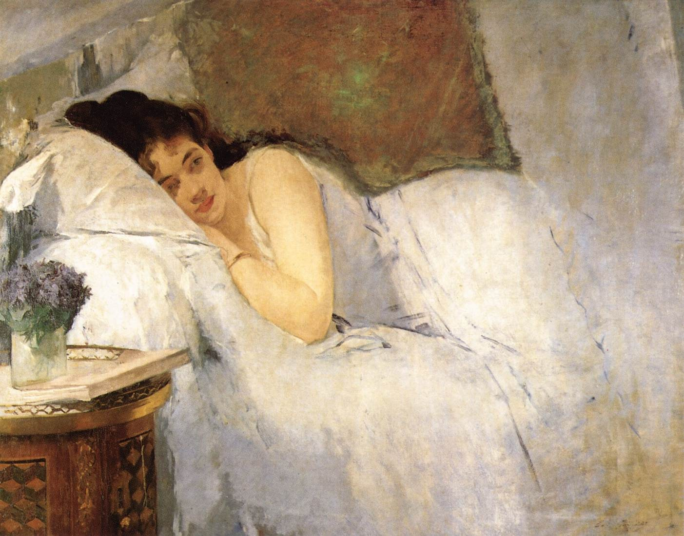 Morning Awakening